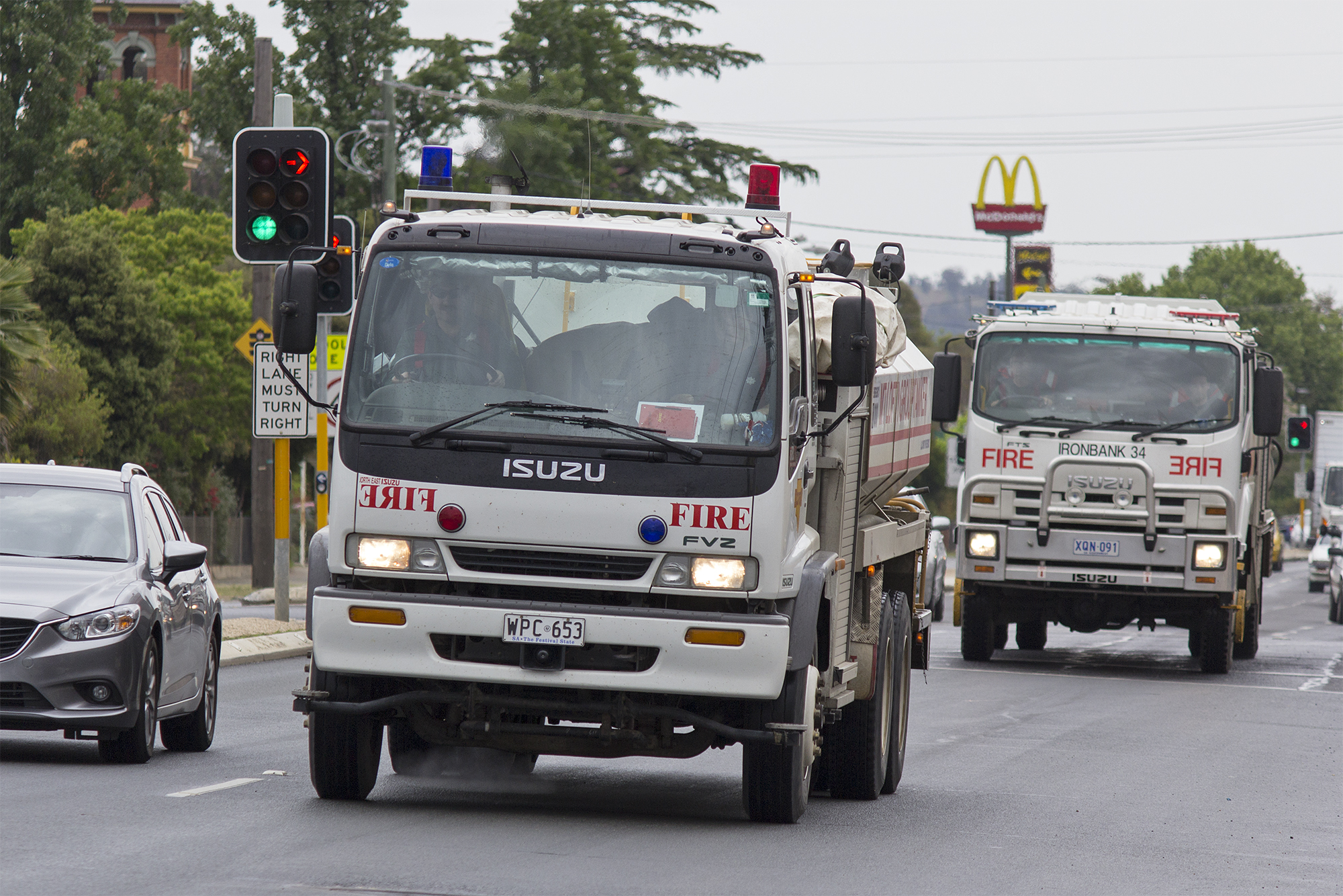 Country Fire Service bulk water carrier and pumper tanker passing though Wagga Wagga, on route to assist Fire and Rescue NSW and the New South Wales Rural Fire Service in fighting the bushfires burning on the Blue Mountains and Southern Highlands.